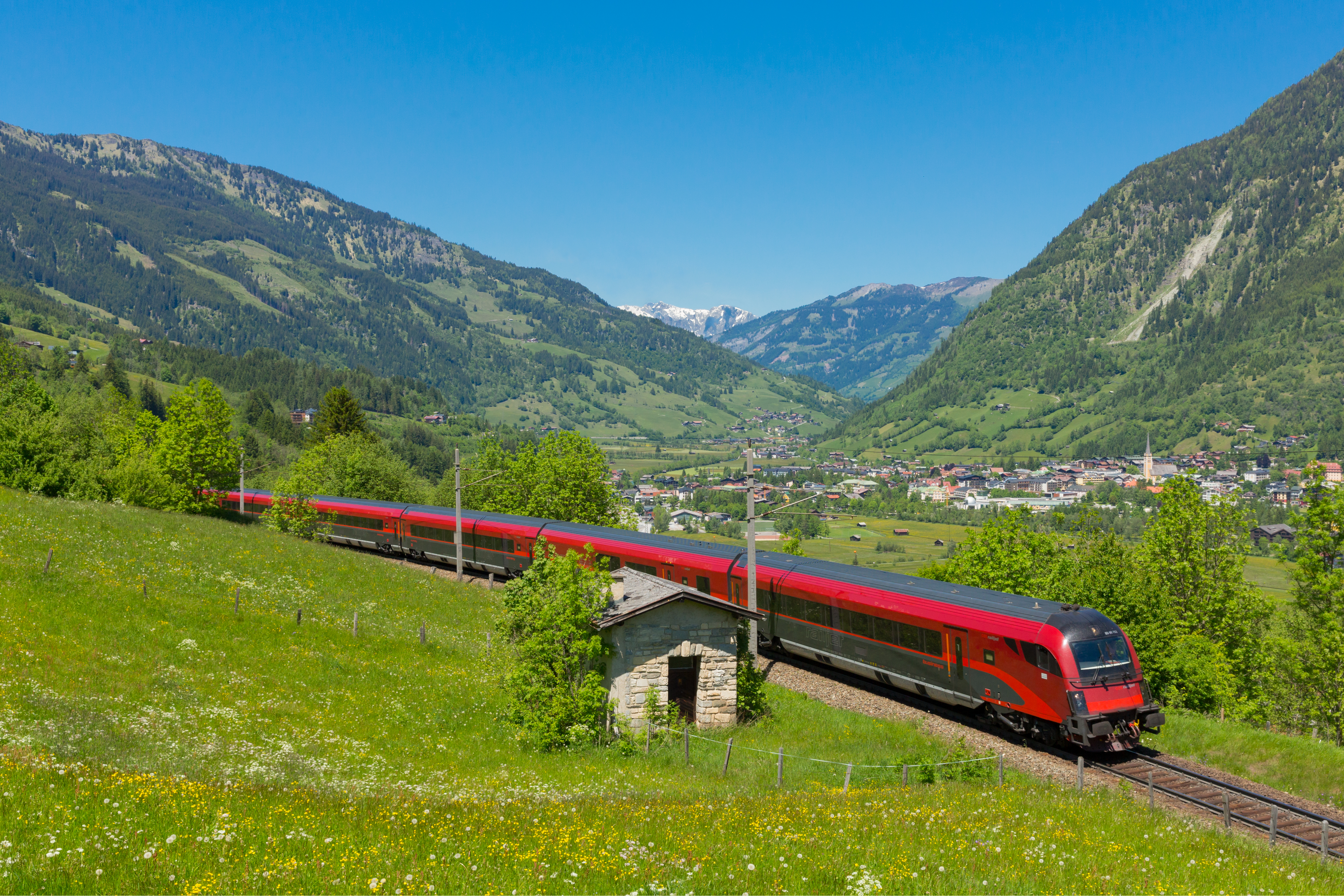 Railjet 793 on the Tauern Railway south of Bad Hofgastein.